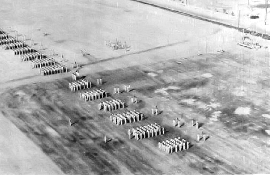 Pecos Army Airfield - Cadet Formation on Parking Apron